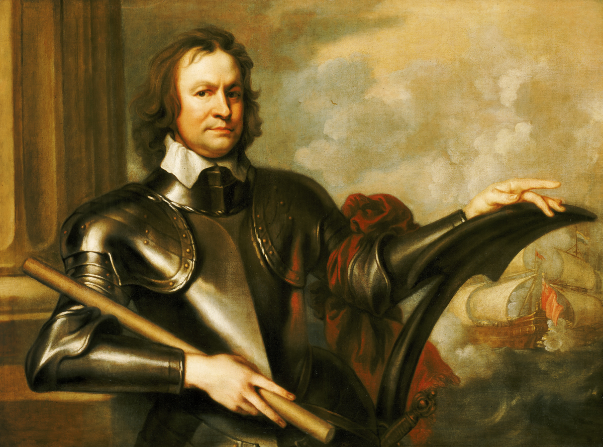 Portrait of Richard Deane (1610–1653), who supported the Parliamentary cause in the English Civil War. He was a General at Sea, major-general and regicide.